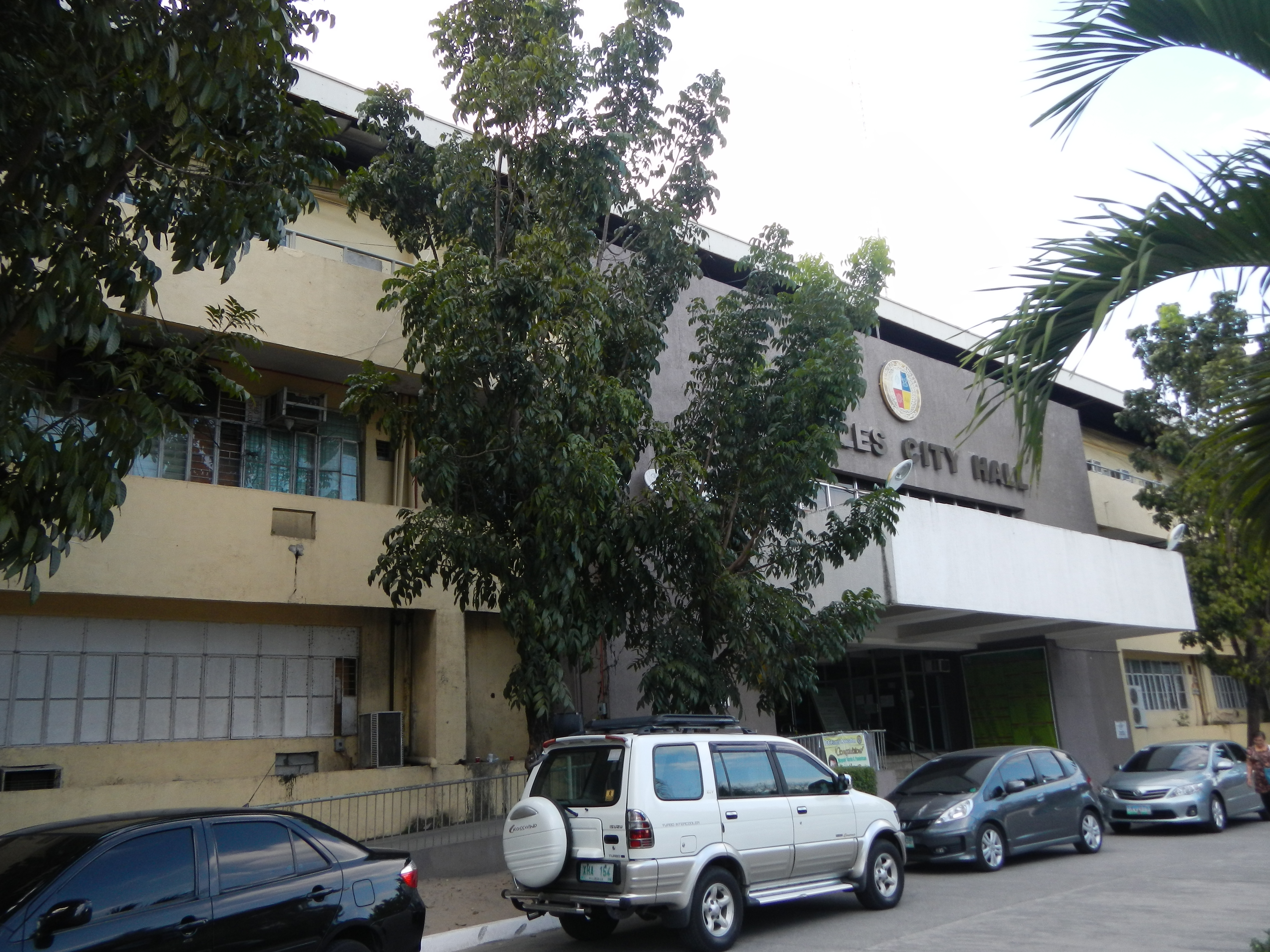 [1]Angeles, Philippines